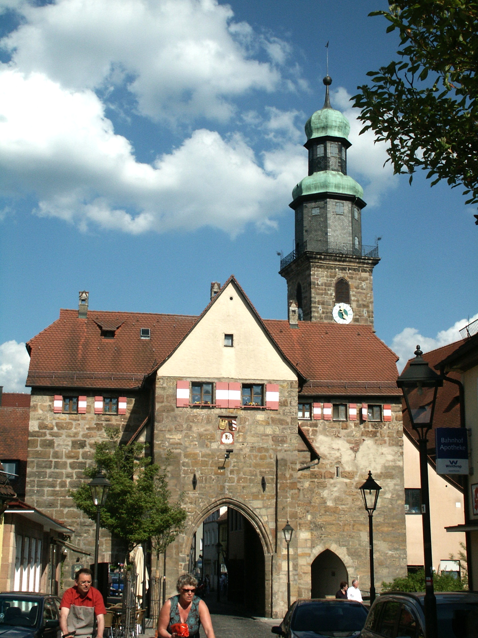 City gate "Nürnberger Tor" of German city Lauf an der Pegnitz